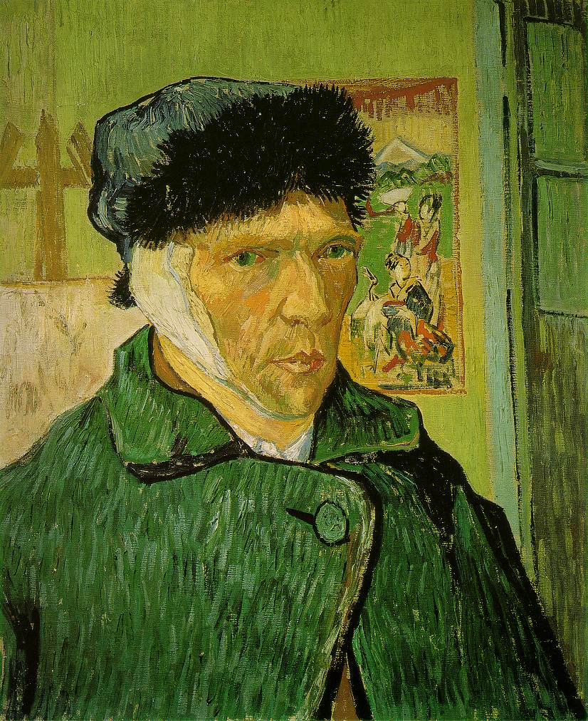 A self-portrait by Vincent van Gogh with a bandaged ear. On display in the Courtauld Gallery.